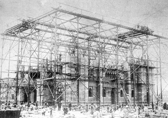 Photography of the construction of the synagogue of Kaiserslautern in 1884